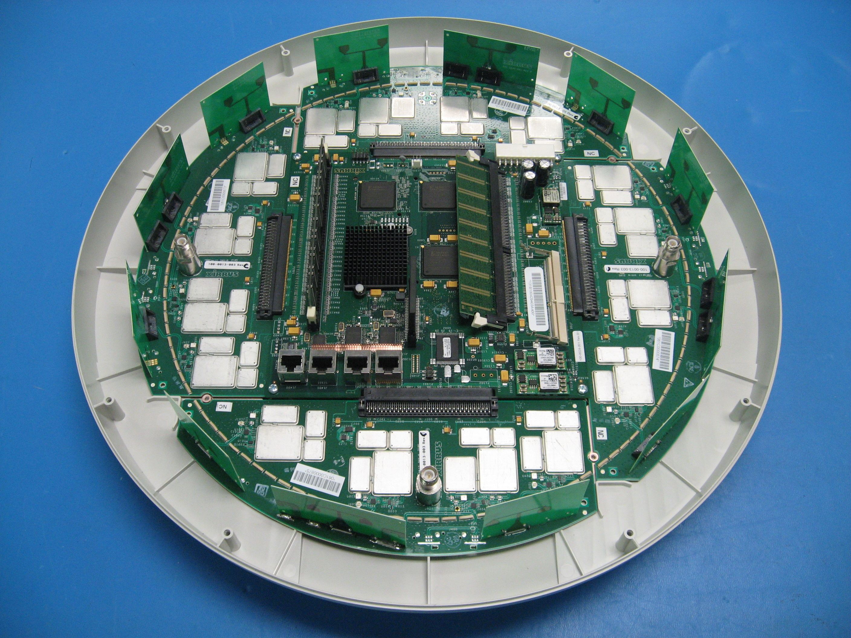 Inside of the Wi-Fi Array